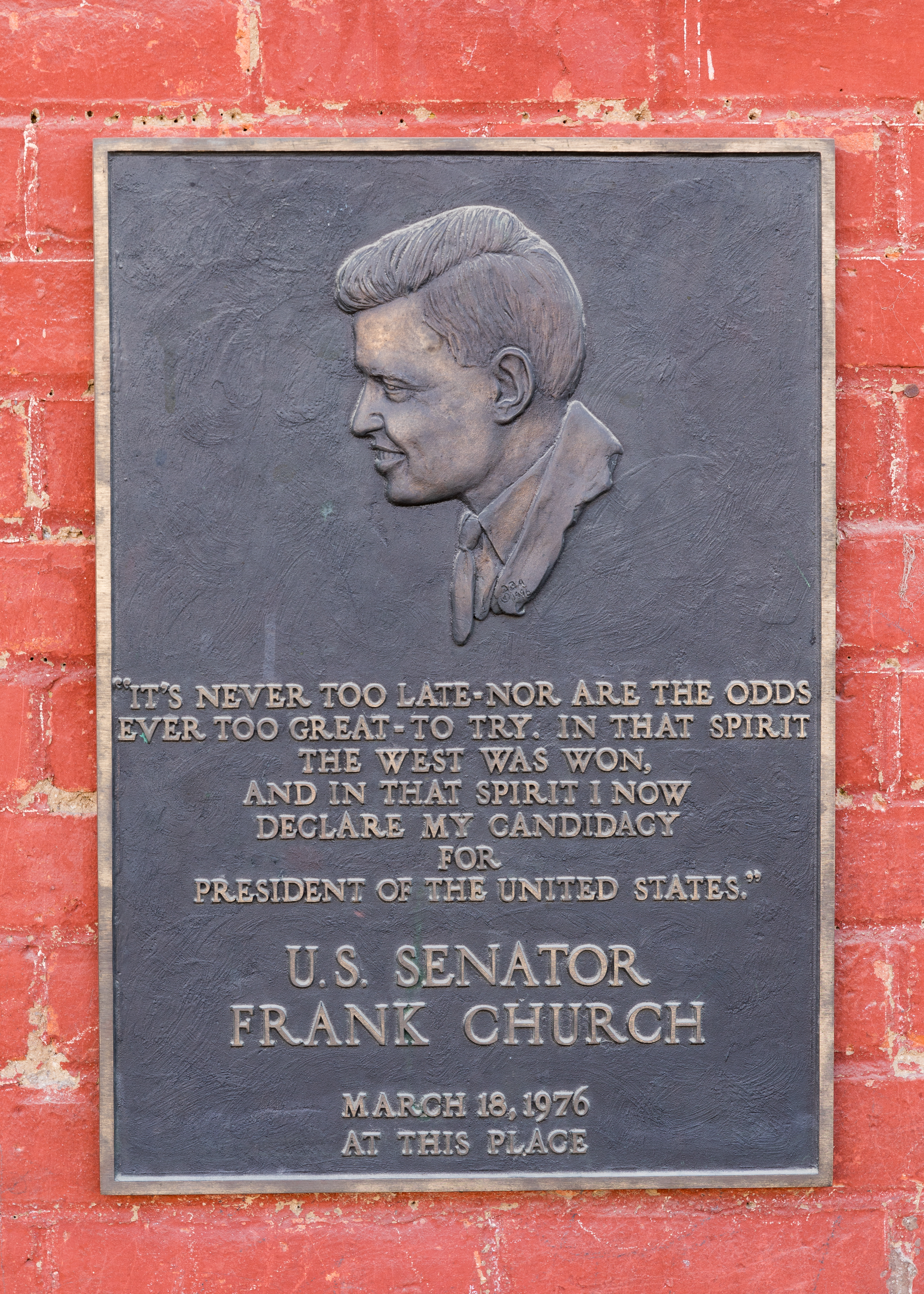 Commemorative plaque in Idaho City, remembering the announcement of U.S. Senator Frank Church, to run for President of the United States, on March 18, 1976